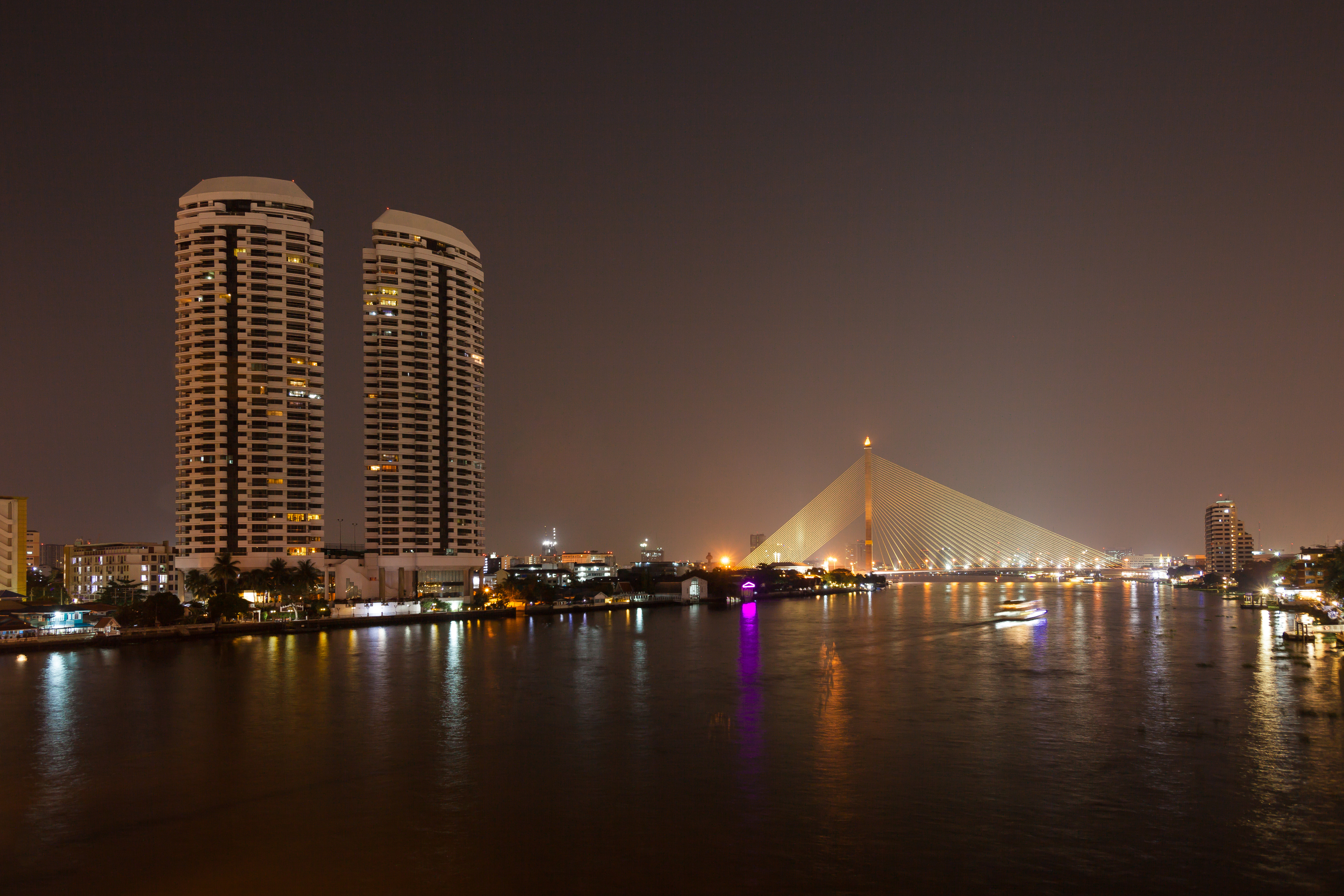 Chao Phraya River Views from Phra Pin-klao Bridge.